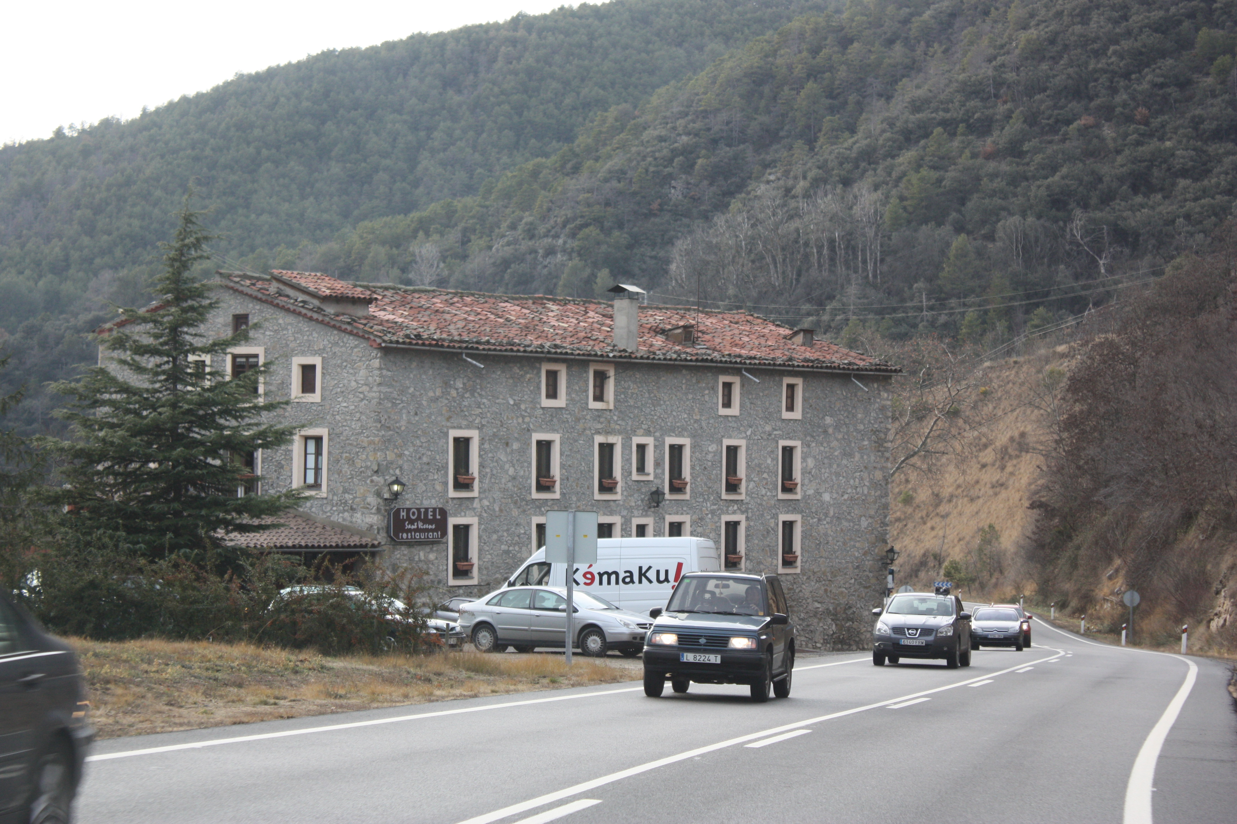 Els Banys de Sant Vicenç (El Pont de Bar, Catalonia)